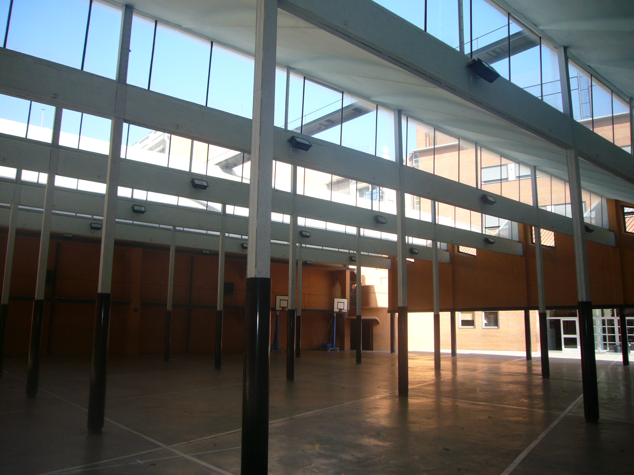 Mañach Workshop, in Barcelona, currently converted into a school. Commissioned by Pere Mañach to the architect Josep Maria Jujol (1916). View from below.